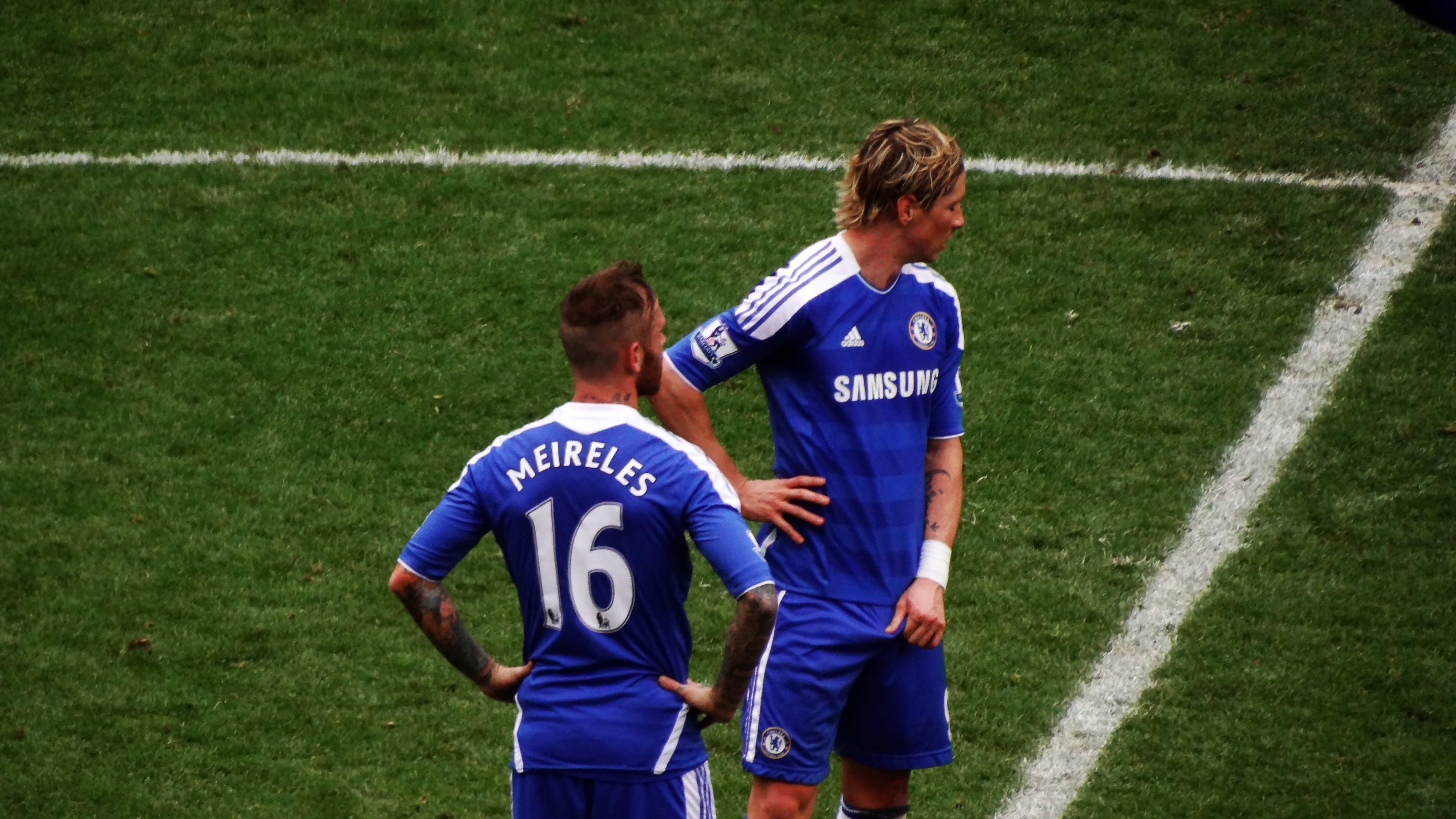 Fernando Torres and Raúl Meireles against Leicester City in a FA Cup match (March 18, 2012)